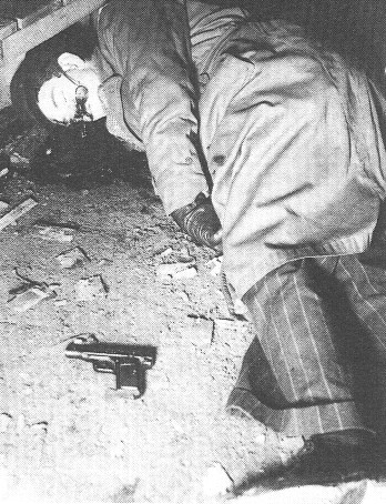 Willem Ter Braak lies dead in a public air raid shelter in Cambridge, after committing suicide. He had been operating as a German spy in Britain for five months but had run out of money.